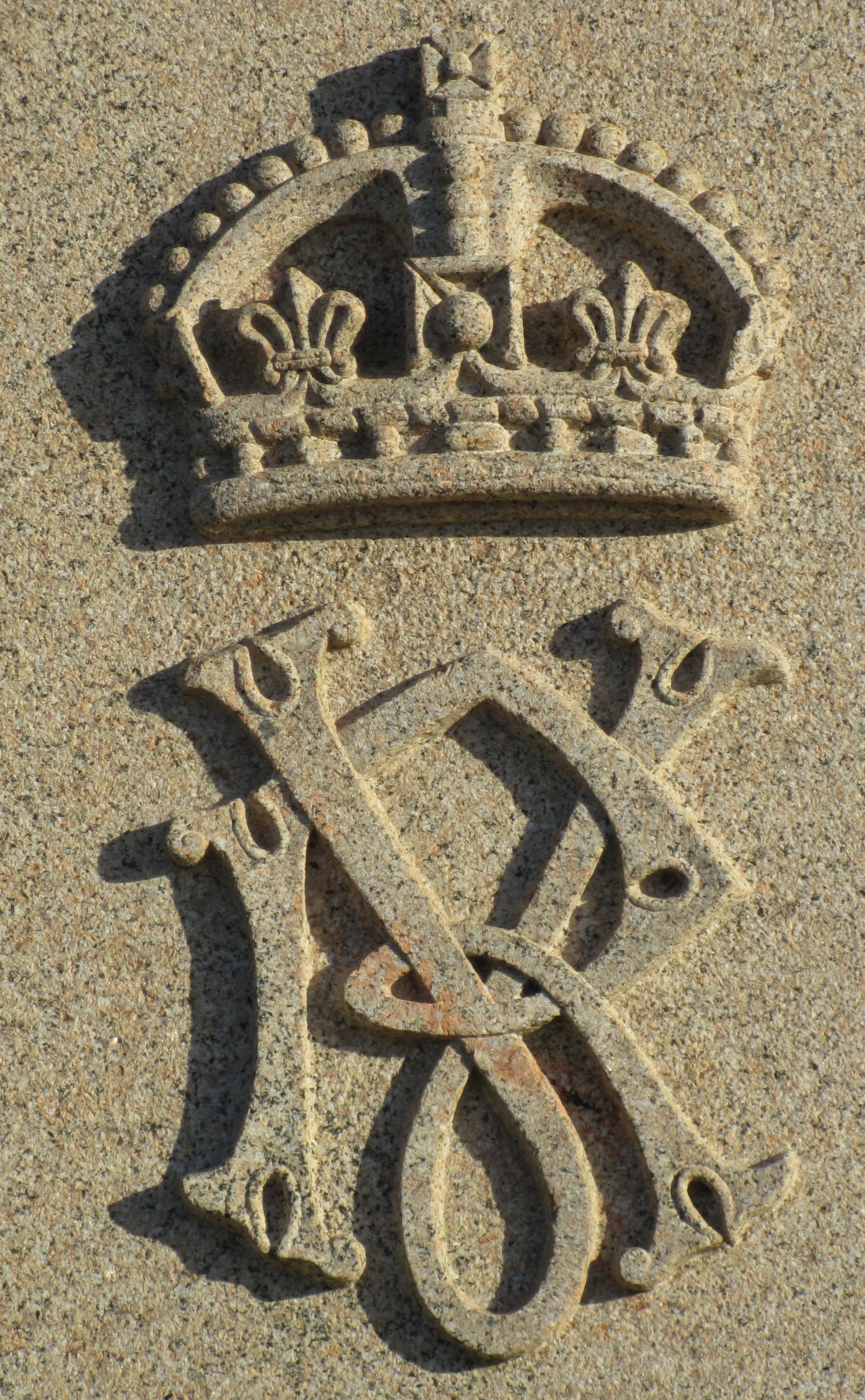 Queen Victoria statue by Georges Wallet in Jersey, commissioned for Golden Jubilee 1887, originally at Weighbridge, now in Victoria (formerly Triangle) Park Nrf: La statue d'la Reine Victoria ès Mielles dé Haut, stchulptée par Georges Wallet 1887